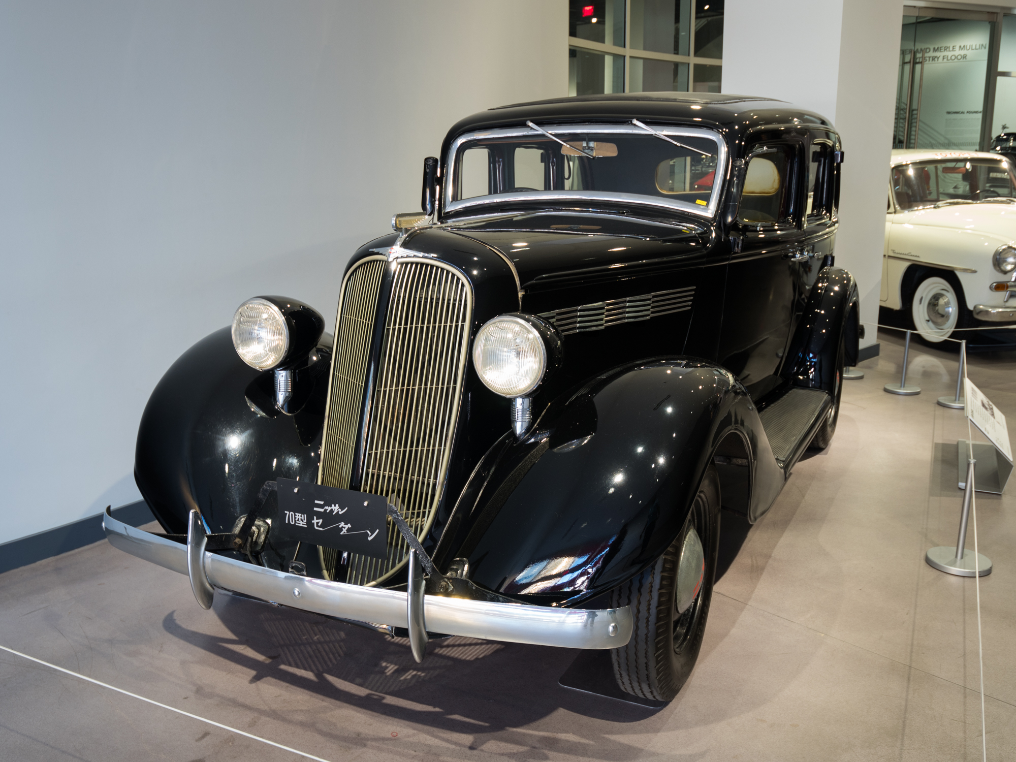 1938 Nissan Model 70 at the Petersen; a fairly close copy of the Graham-Paige